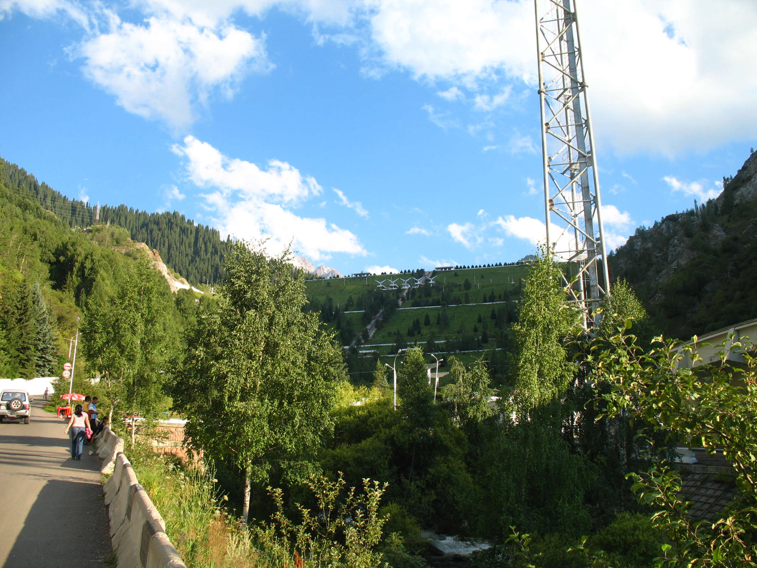 Almaty, Medeo